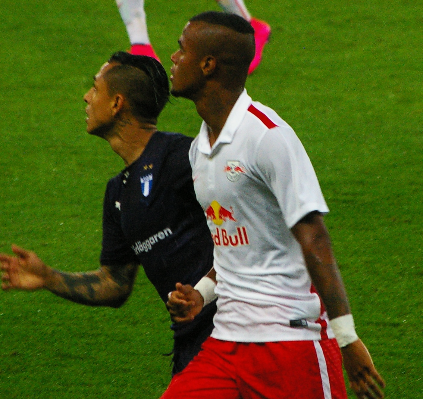 CL qualifing match 3rd round 1st leg